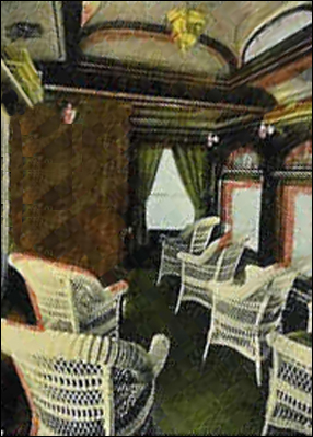 Empire United Railways - 1912 - Interior of parlor car